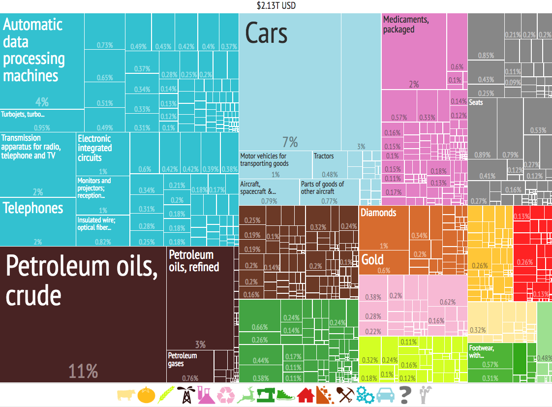 United States imports from other countries